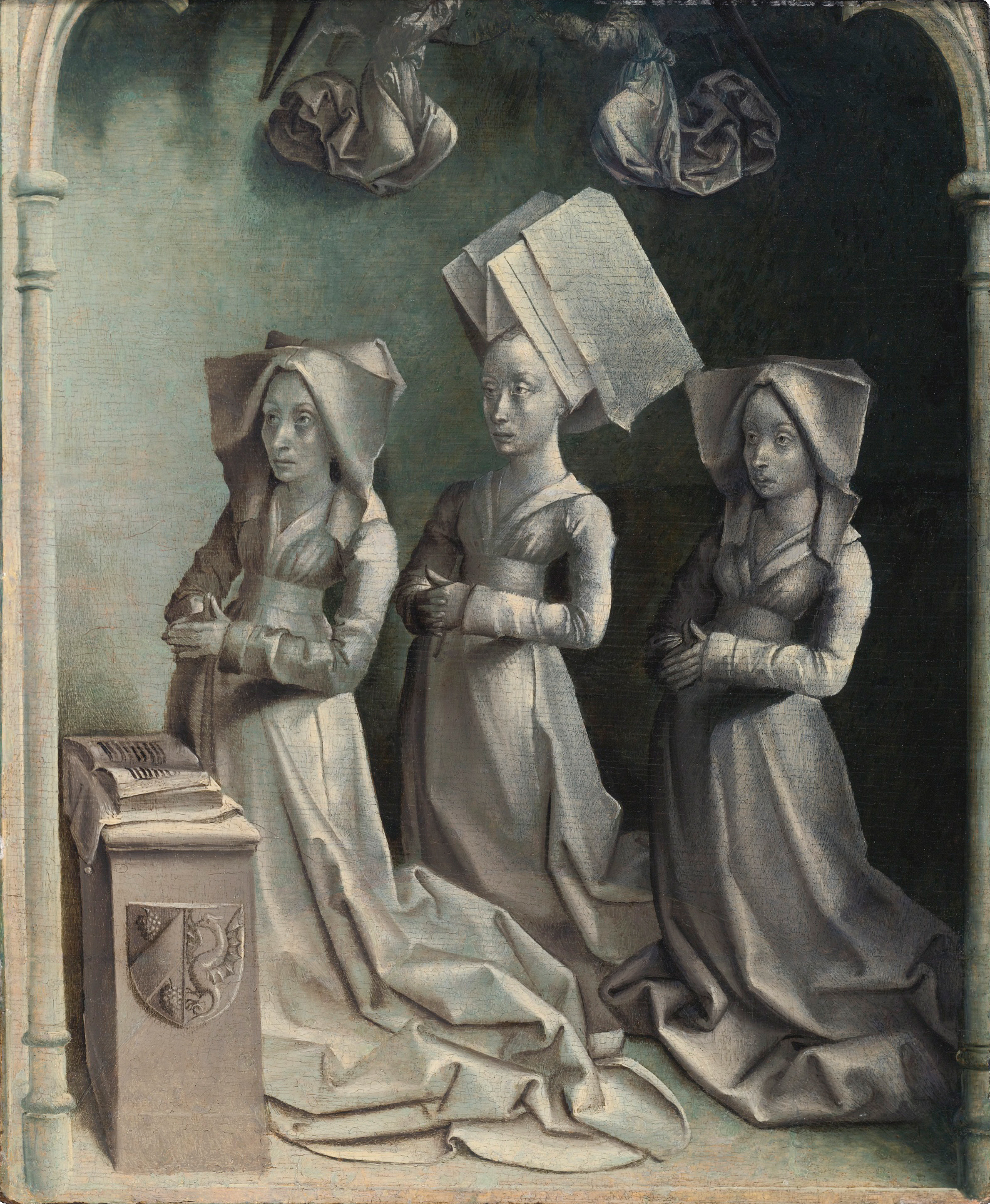 Jeanne Peschard (d. 1468) and her daughters, Jacquette and Catherine Budé, as donors oil on oak panel, en grisaille 35 x 28 cm